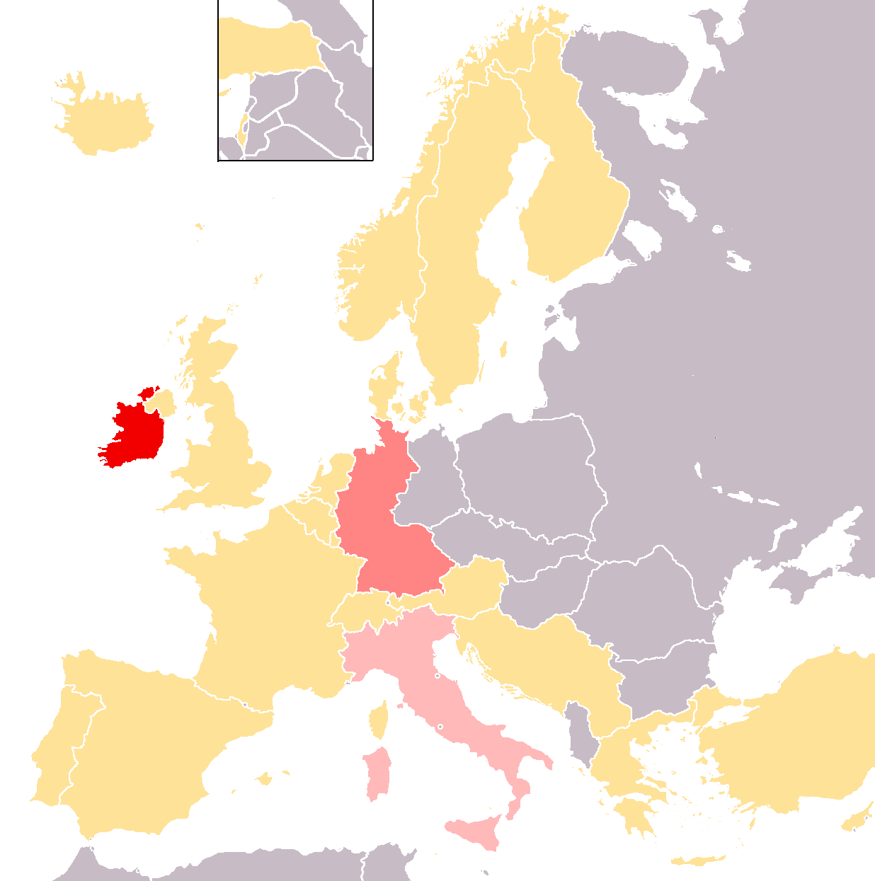 Map of Eurovision 1987